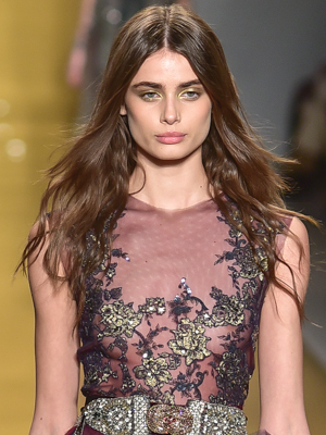 American model Taylor Marie Hill on the Reem Acra FW 15 Show